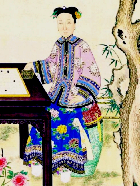 Imperial portrait of Empress Dowager Cixi of China